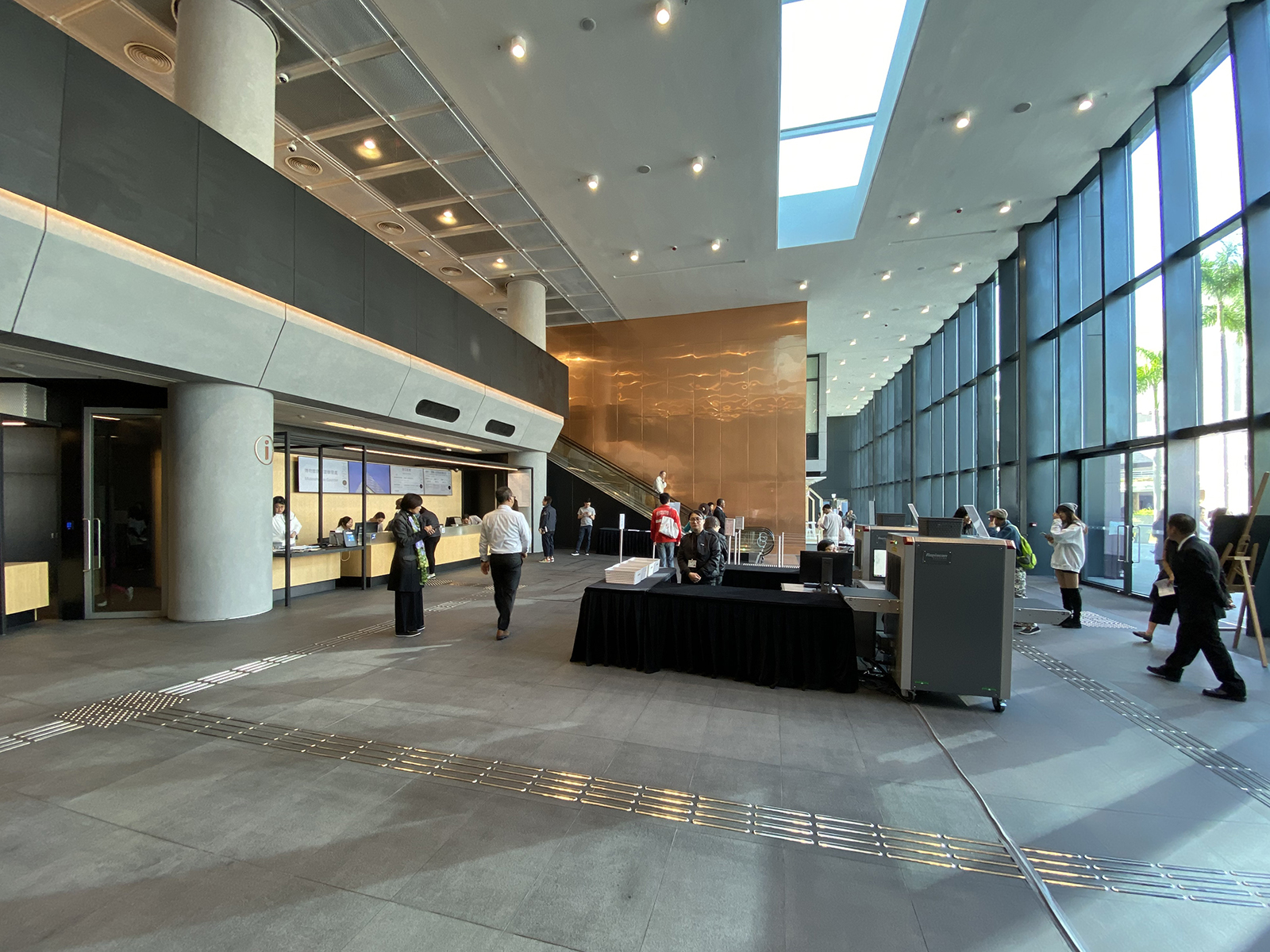 Hong Kong Museum of Art GF Lobby